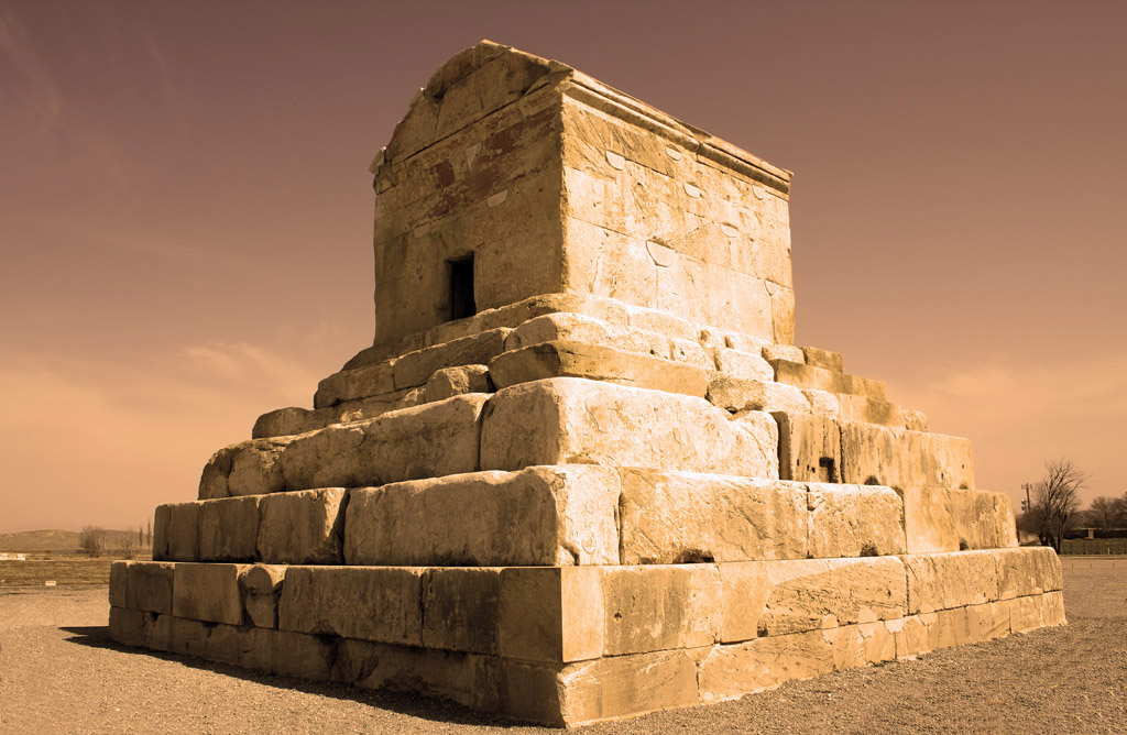 Tomb of Cyrus the Great